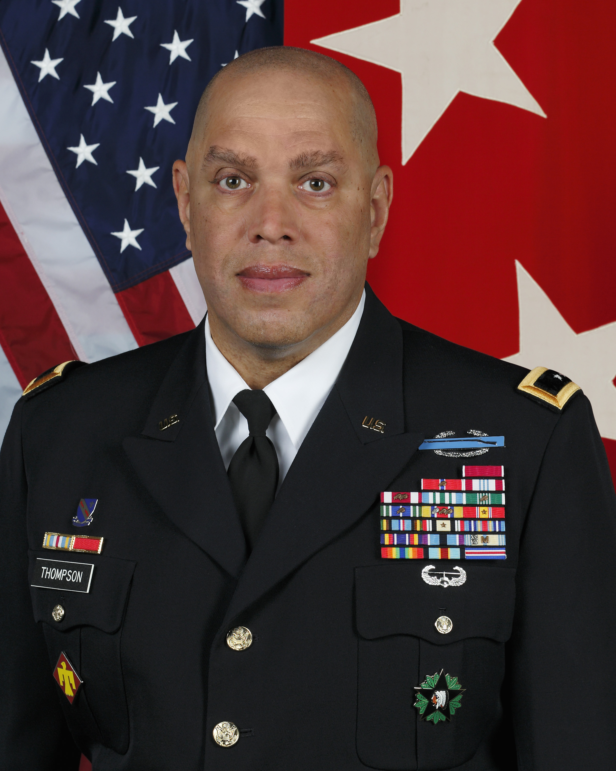 Official portrait of Maj. Gen. Michael C. Thompson, the Adjutant General, Oklahoma National Guard.